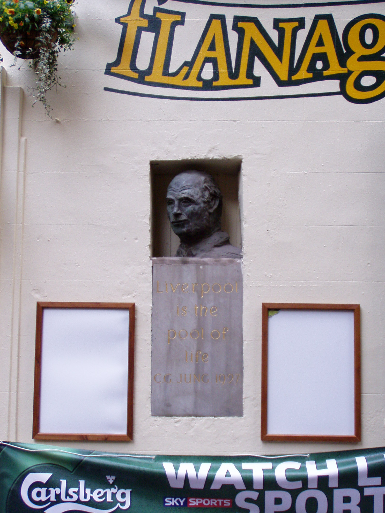 Flannagans Apple Pub, Liverpool with bust of Jung